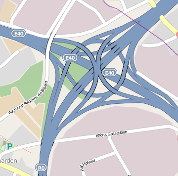 OSM_knooppunt_Groot-Bijgaarden.png